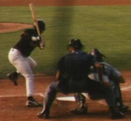 Rontrez Johnson of the Michigan Battle Cats bats against the South Bend Silver Hawks during a 1997 game at C. O. Brown Stadium in Battle Creek, Michigan.